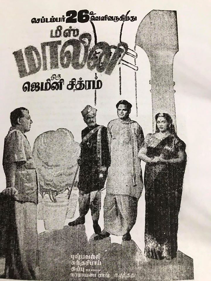 Poster